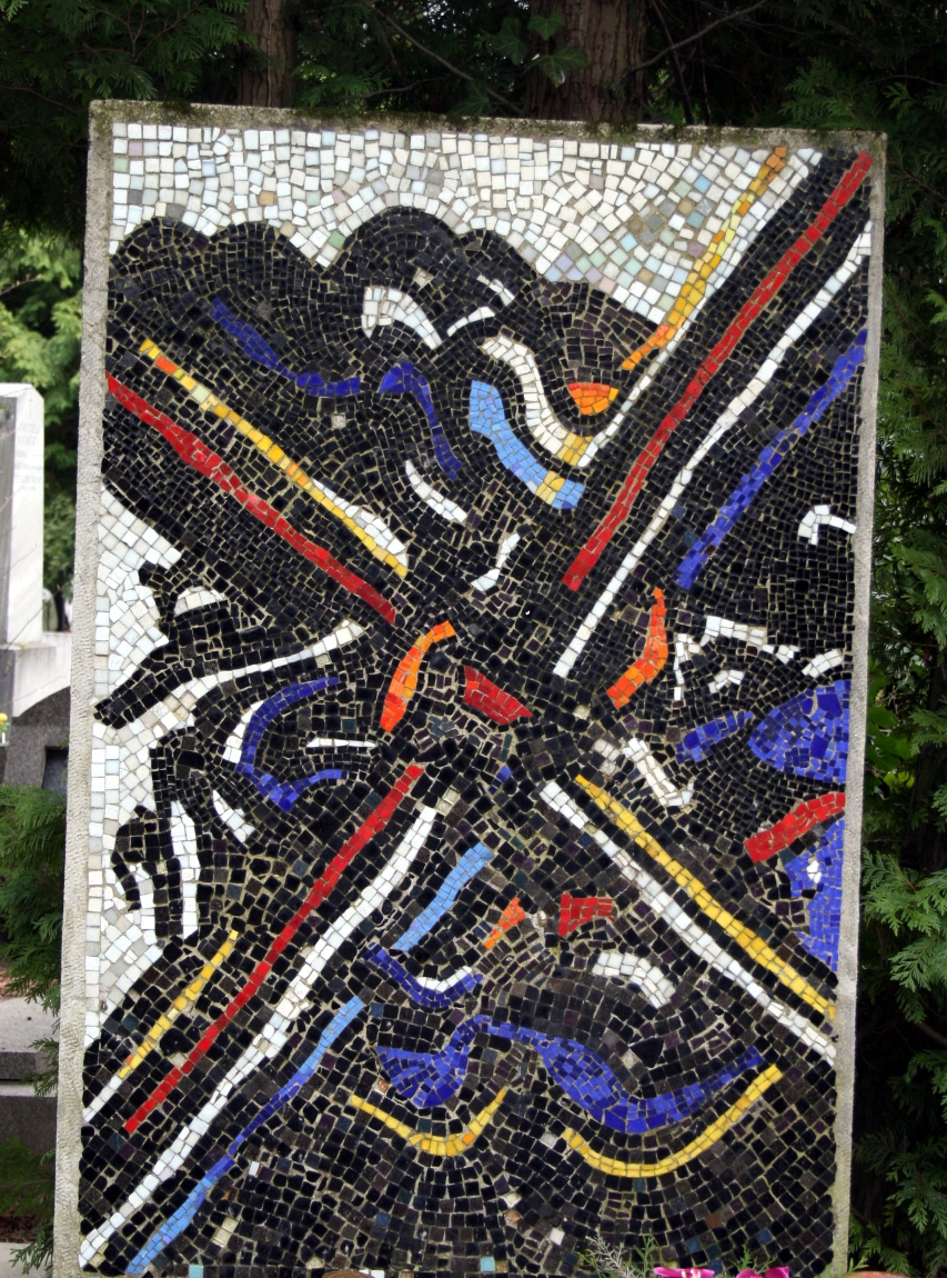 Mosaic by Edo Murtić (1921 -2005), 2nd half of 20th century work